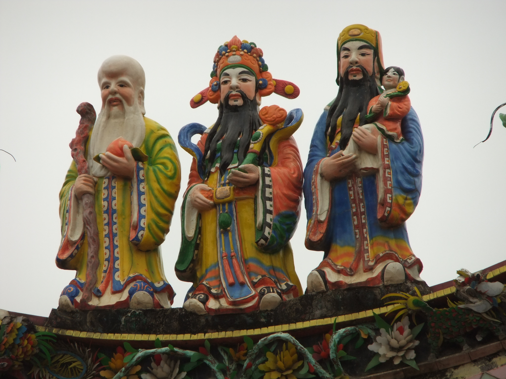 Hou Pu Wu Miao, a temple at 122 Yingguang Lu, Jincheng Town, Kinmen. Apparently, it is dedicated to Guan Di (and other local deities), and is decorated with the figures of Fu Lu Shou.